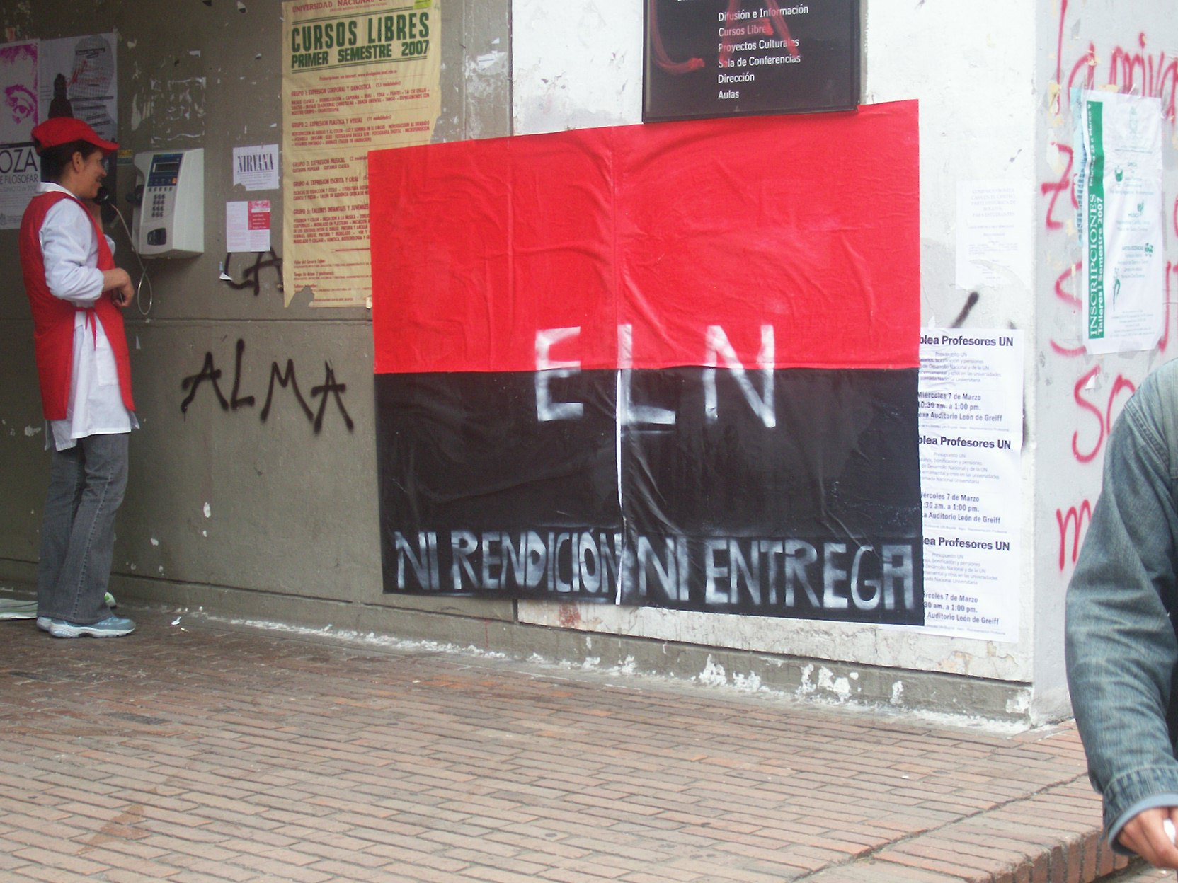 León de Greiff Auditory, National University of Colombia, 7 March 2007